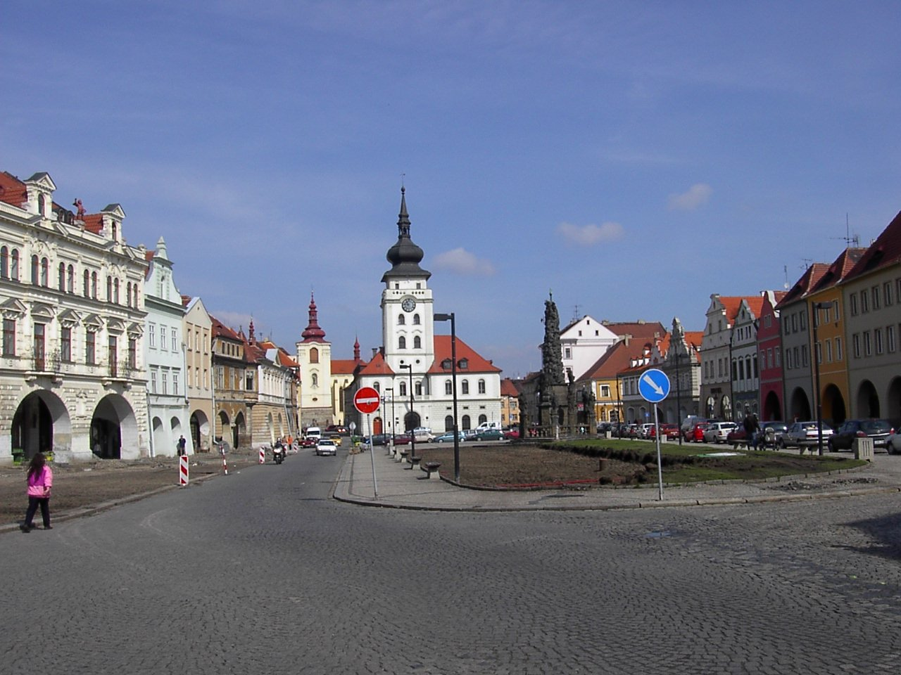 The Freedom Square with town hall in Žatec, Czech Republic.